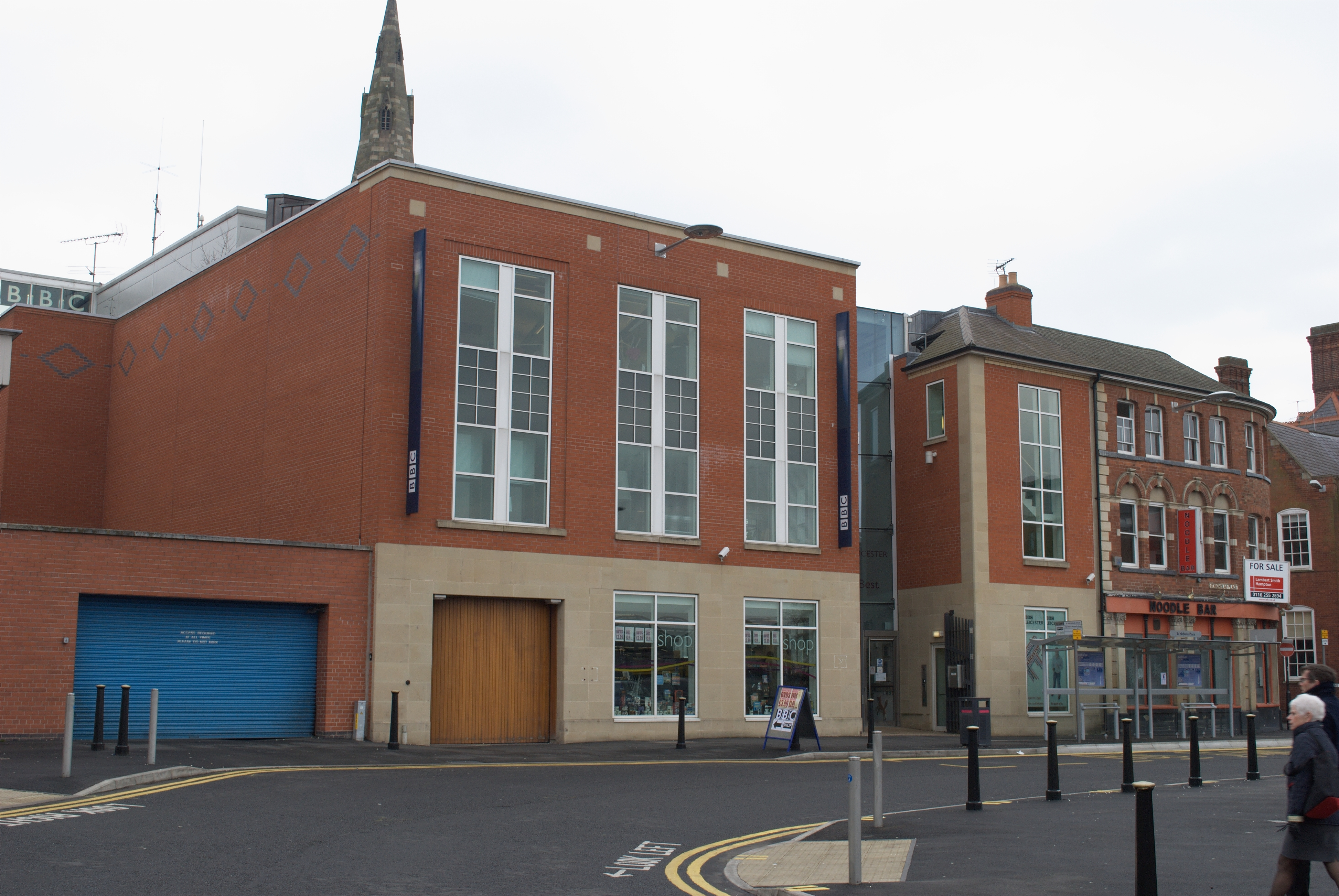 BBC Leicester building, home to BBC Radio Leicester, at 9 St Nicholas Place